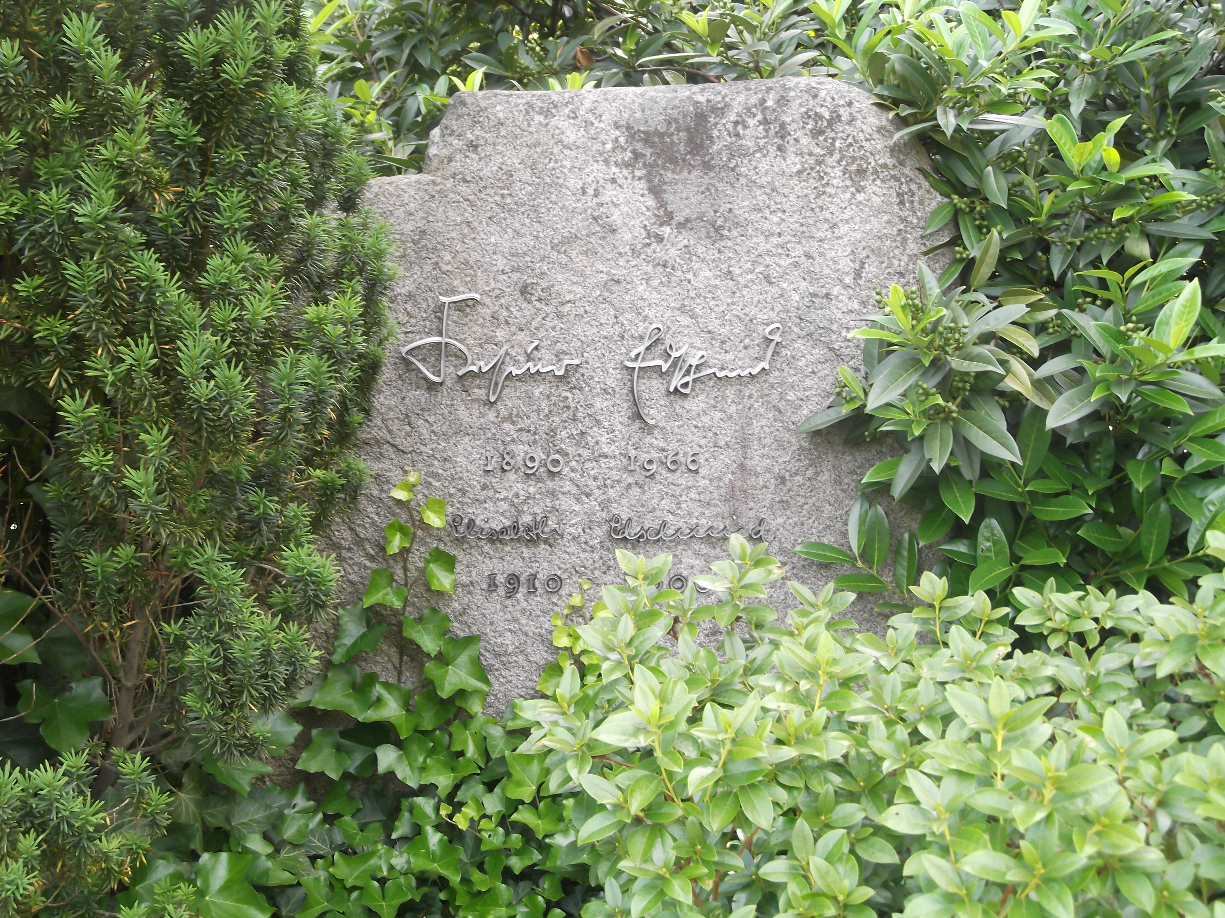 Grave of Kasimir Edschmid in the "Alter Friedhof" in Darmstadt (Germany)